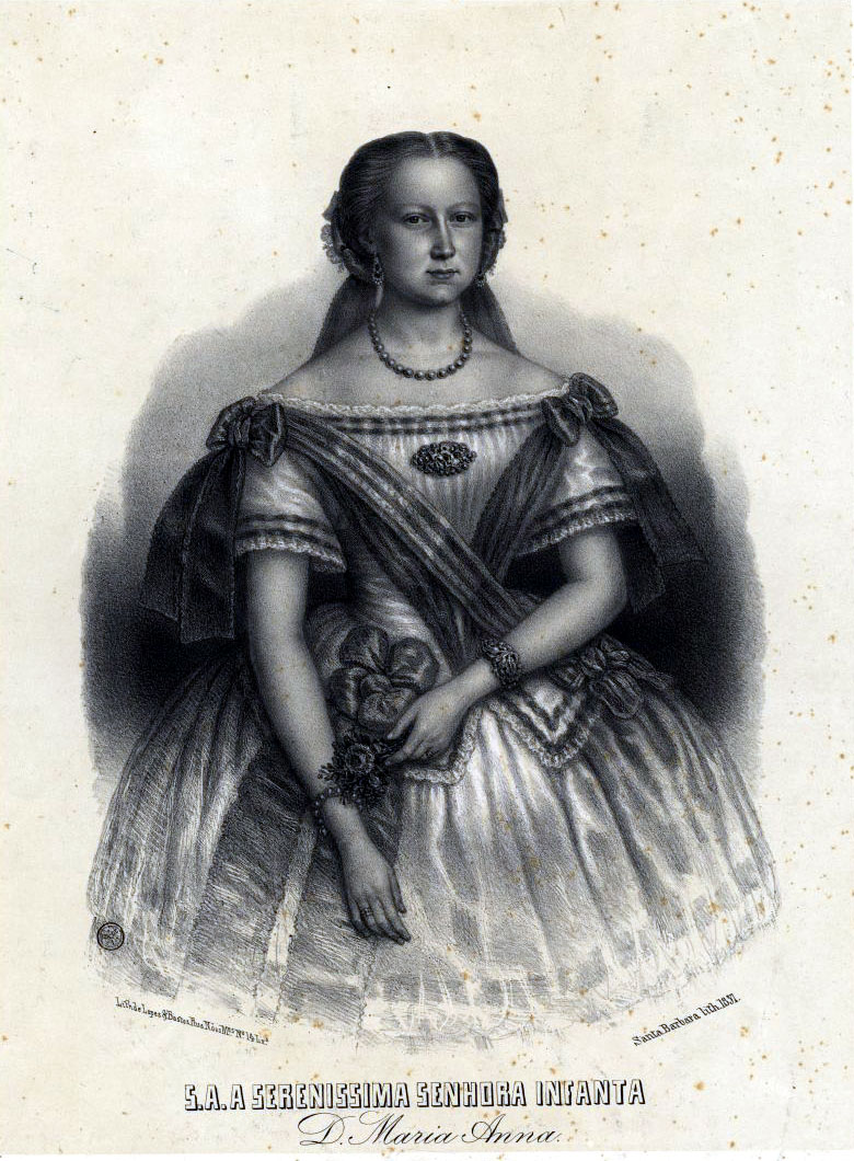 Princess Maria Ana of Portugal